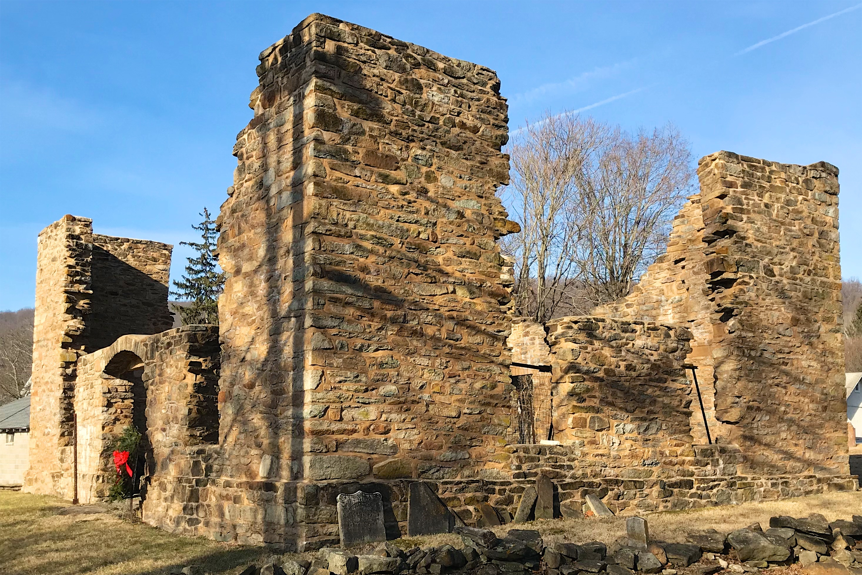 The ruins of the Old Stone Union Church, built 1774, in Long Valley, New Jersey. Key contributing structure #60 in the German Valley Historic District.